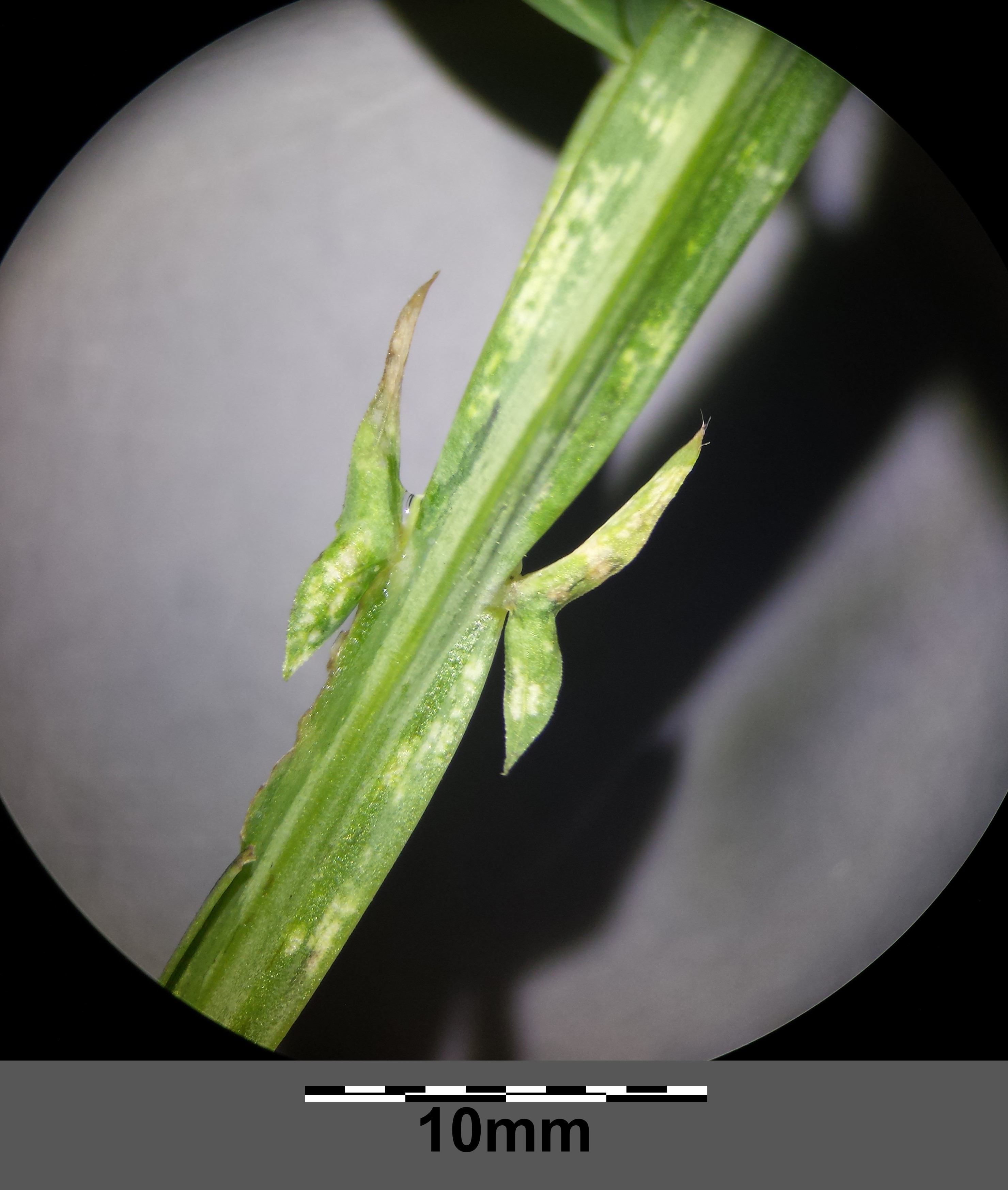 Stipe with stipules Taxonym: Lathyrus hirsutus ss Fischer et al. EfÖLS 2008 ISBN 978-3-85474-187-9 Location: Burgstall to the North of Großmugl, district Korneuburg, Lower Austria - 330 m a.s.l. Habitat: wayside